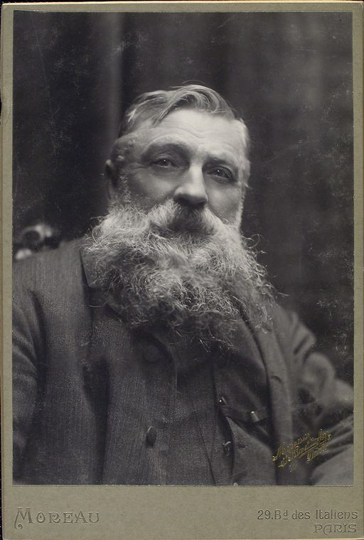 Auguste Rodin, French sculptor, in middle age